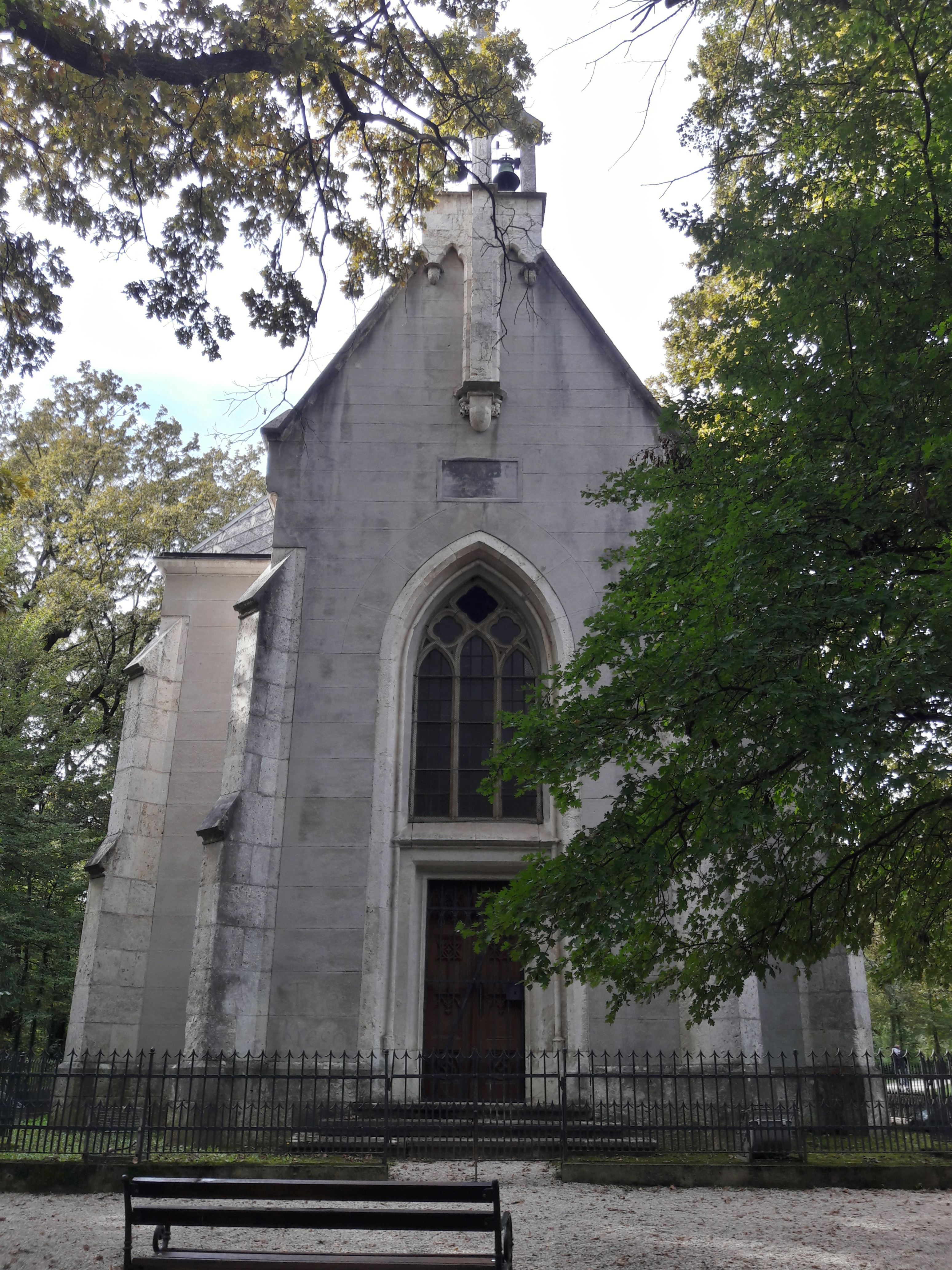 Saint Juraj's Chapel in Maksimir Park front view